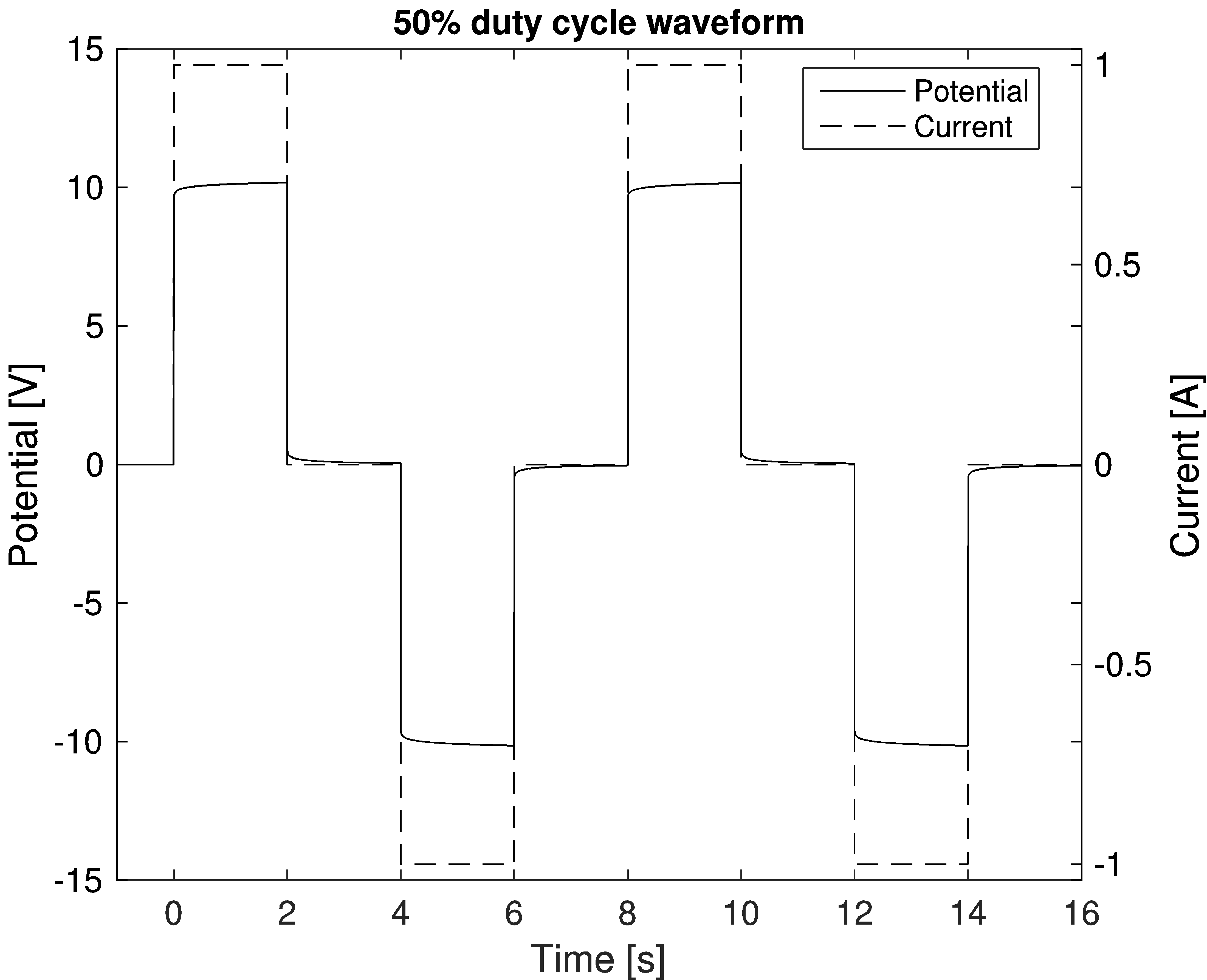 Theoretical current waveform and potential response for time domain resistivity and induced polarization measurements. The potential response was modelled for a homogeneous Cole-Cole parameterized half-space.